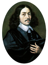 Painting of Bartholomeus Vermuyden, a Dutchman, long misidentified as portraying Jan van Riebeeck, founder of Cape Town.